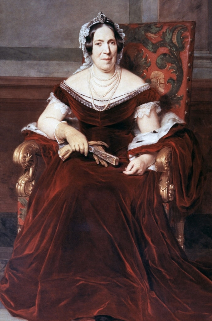 Portrait of Maria Caroline Gibert de Lametz (1793-1879), princess of Monaco